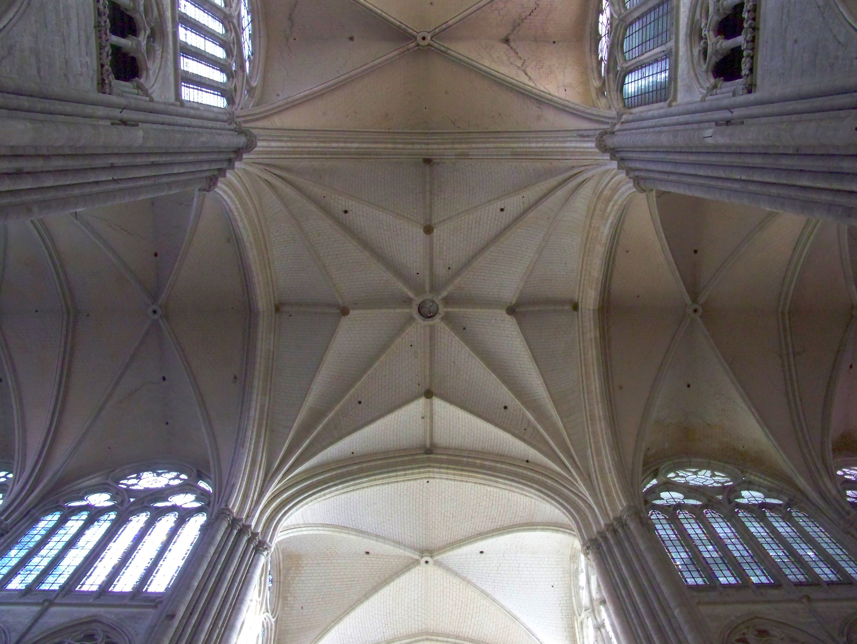 Vaults of the crossing of the cathedral Notre-Dame in Amiens, France